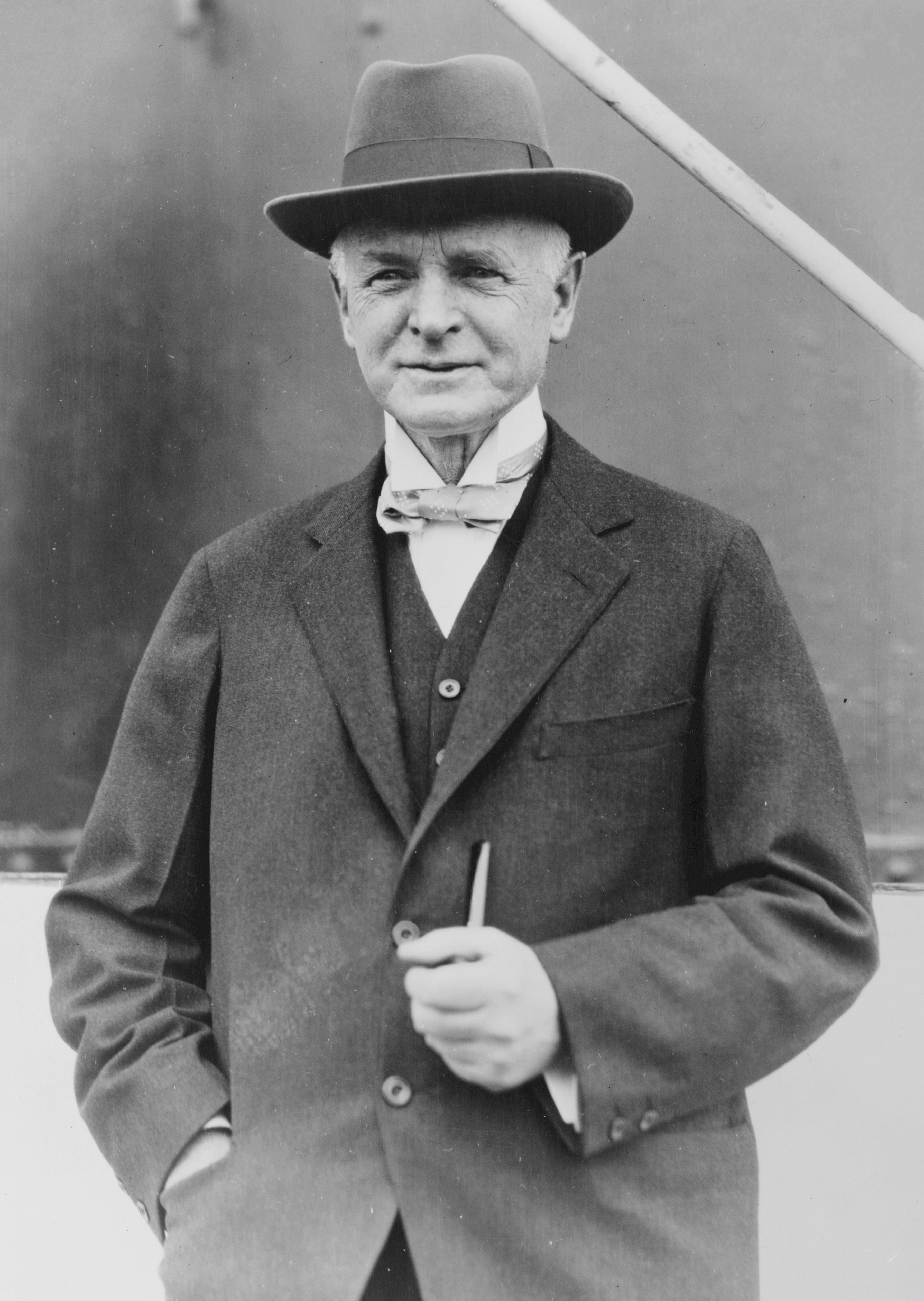 Fairfax Harrison (1869 - 1938), president of Southern Railway Compnay, half-length portrait, taken on board a ship.